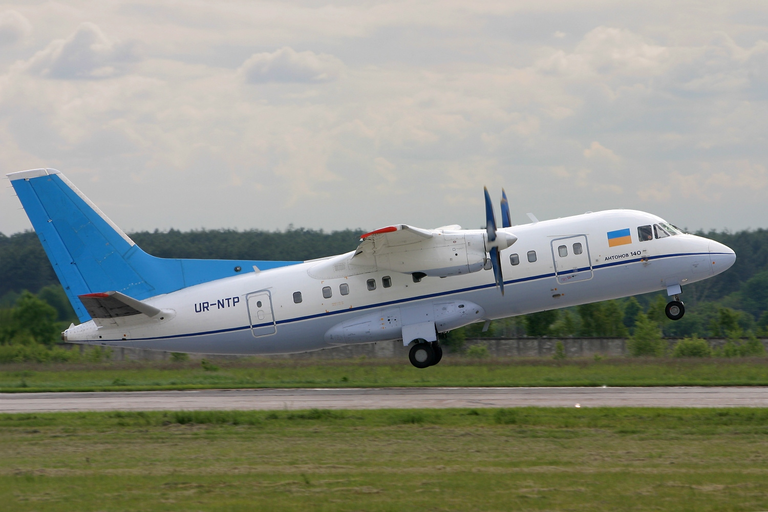 Aviasvit-XXI Airshow